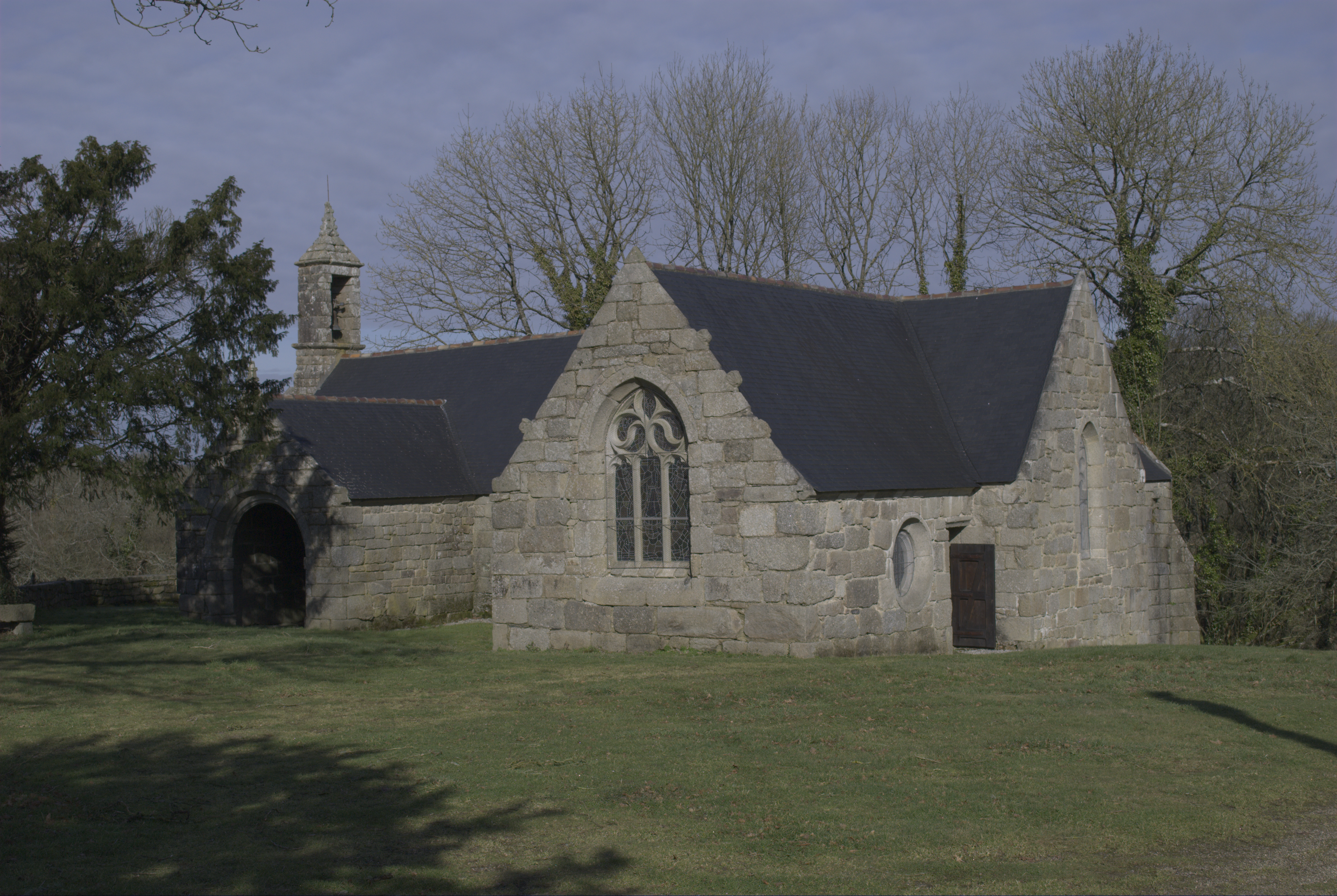 Chapel of Loc'h in the village of Peumerit-Quintin (France).